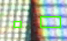 Retina Display (326ppi) vs 163ppi Display, the green boxes mark a single pixel